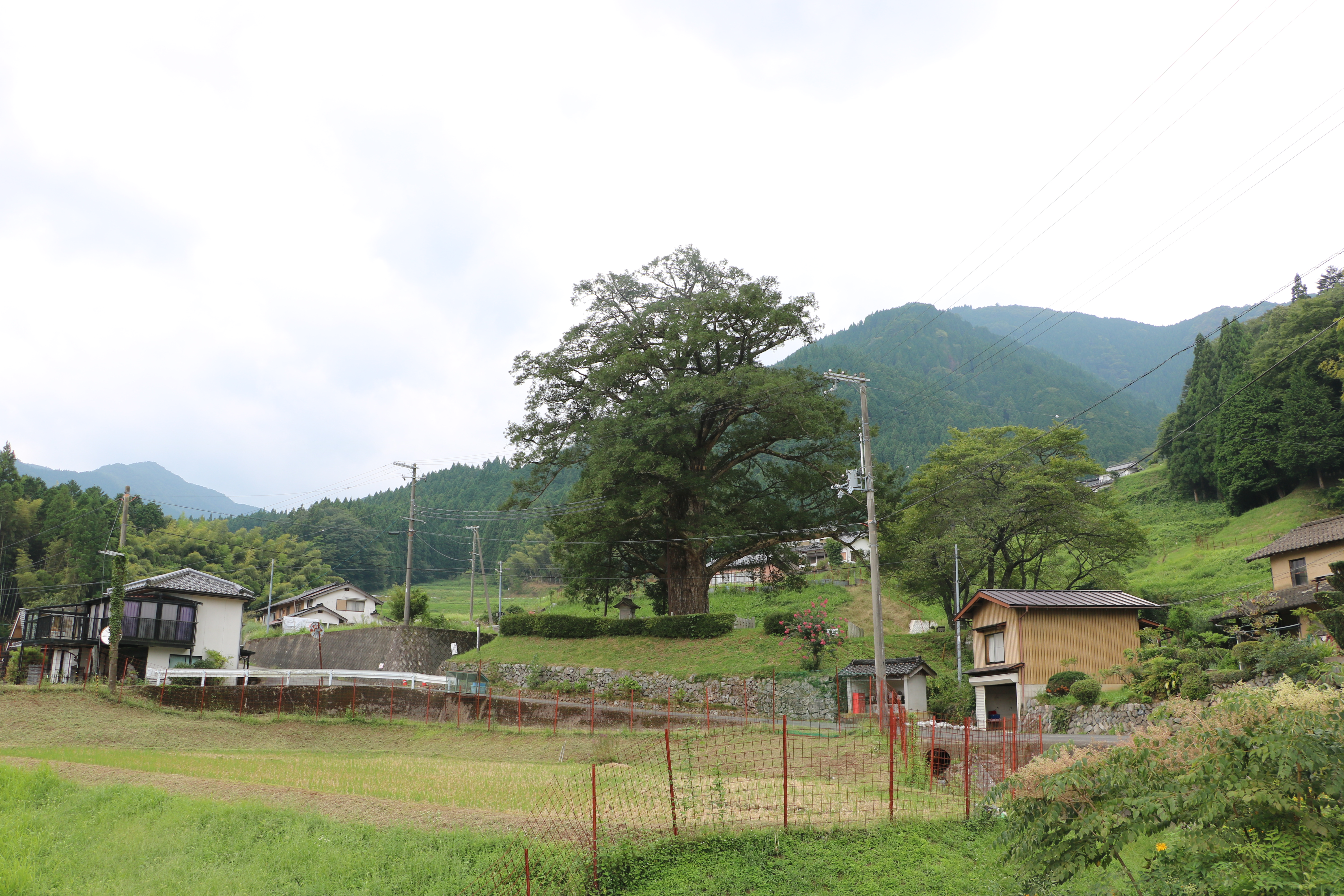 Takinoya no Hidarimakigaya tree.